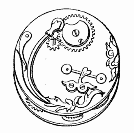 Drawing of early 16th century pocketwatch movement with stackfreed mainspring compensating device. The stackfreed is the eccentric cam near the top, engaged by the long springloaded roller arm. It's purpose was to compensate for the decline of the mainspring's force as it unwound. Early in the watch's running period, when the mainspring is fully wound and providing maximum torque, the stackfreed roller rests against one side of the depression in the cam, exerting a force which opposes the mainspring. Later in the running period, when the mainspring is almost run down and is providing less torque, the stackfreed roller rests on the other side of the cam notch and it's force aids the the mainspring. The dumbbell-shaped device under it is the watch's primitive balance wheel, the foliot. The adjoining source text seems to refer to this as a watch made in the 16th century, from the Soltykoff Collection. Alterations: removed caption, sharpened, converted to PNG.